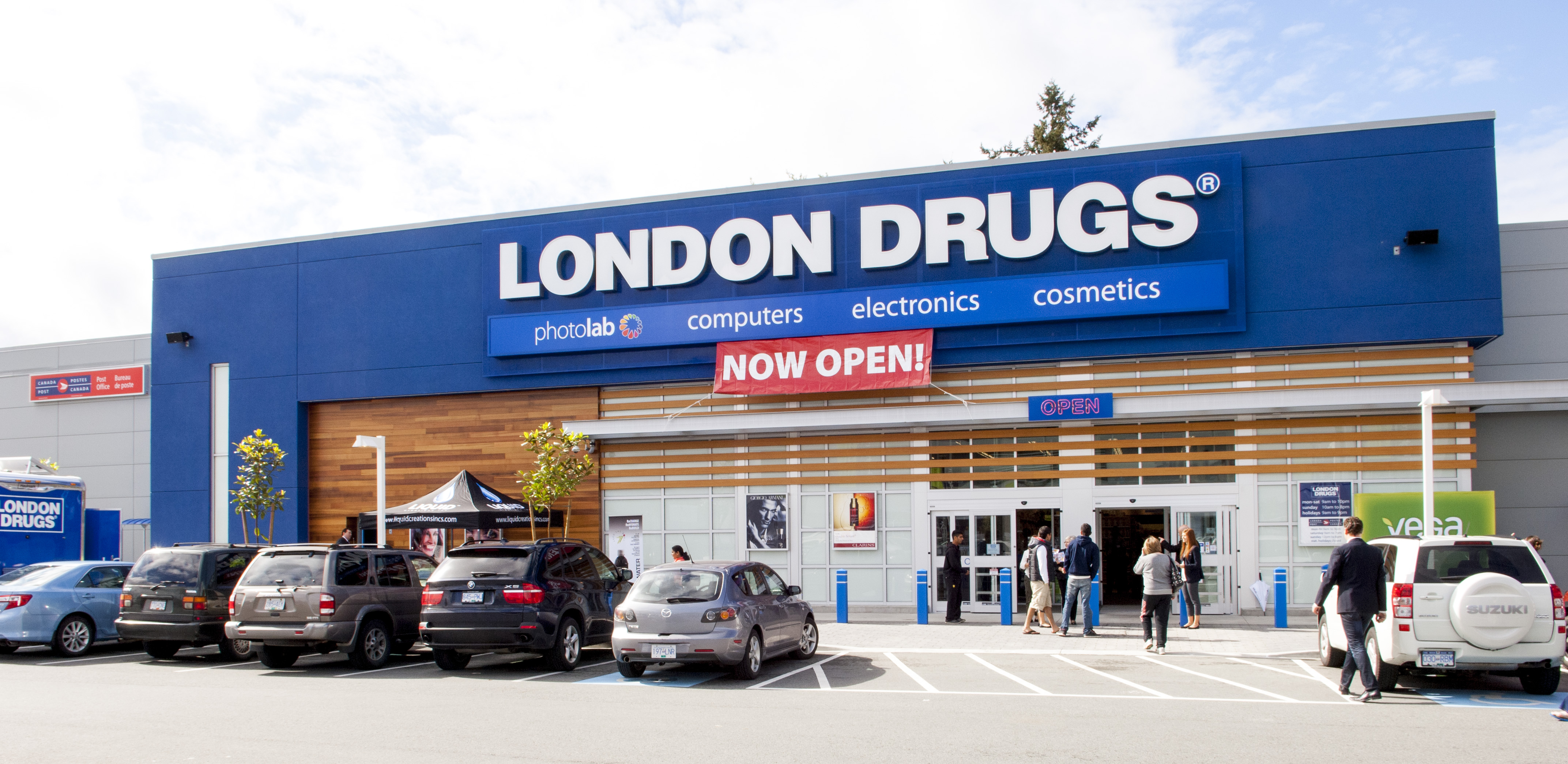 London Drugs Store 77 - Abbotsford, BC